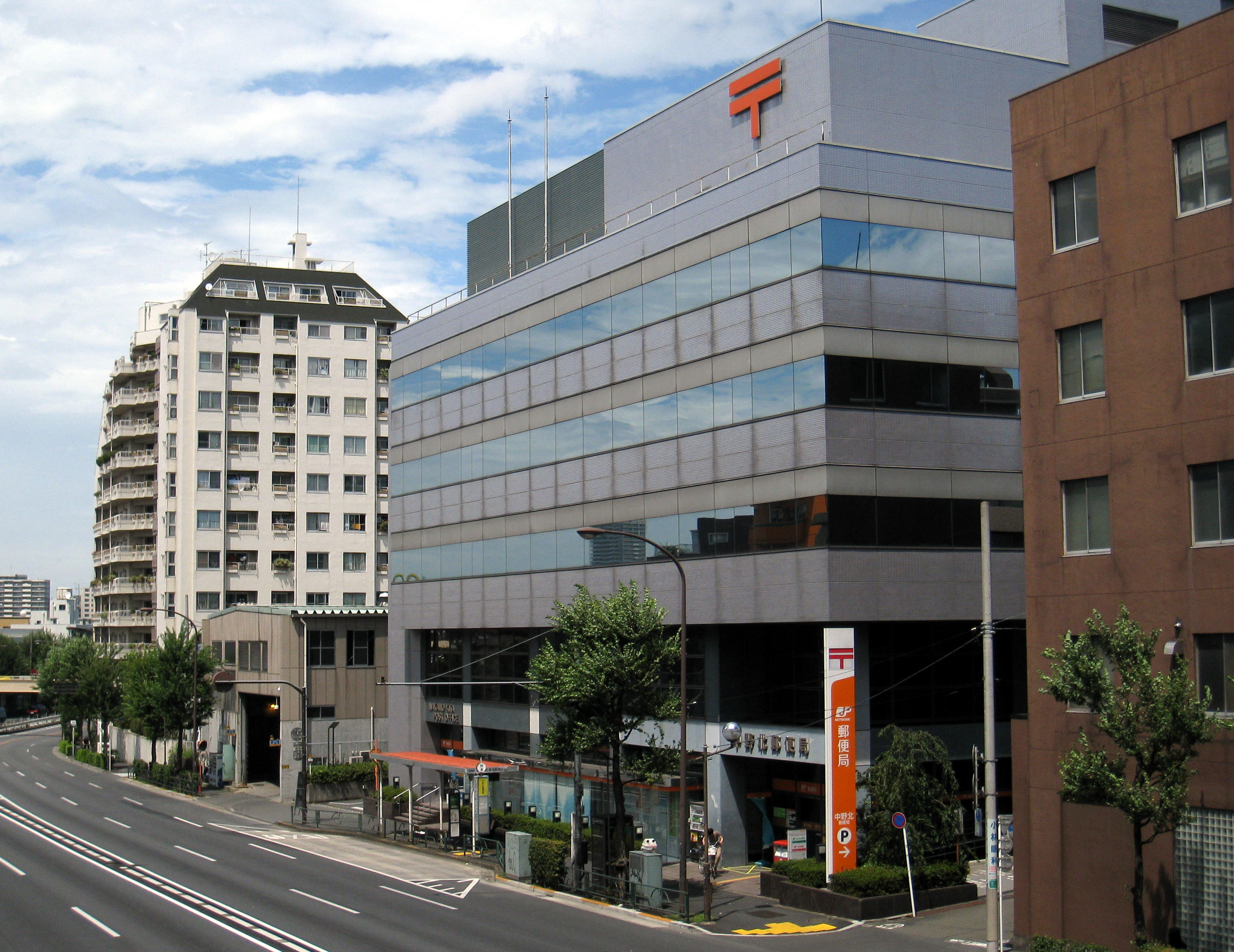 Nakanokita postoffice. Nakano-ward, Tokyo, Japan